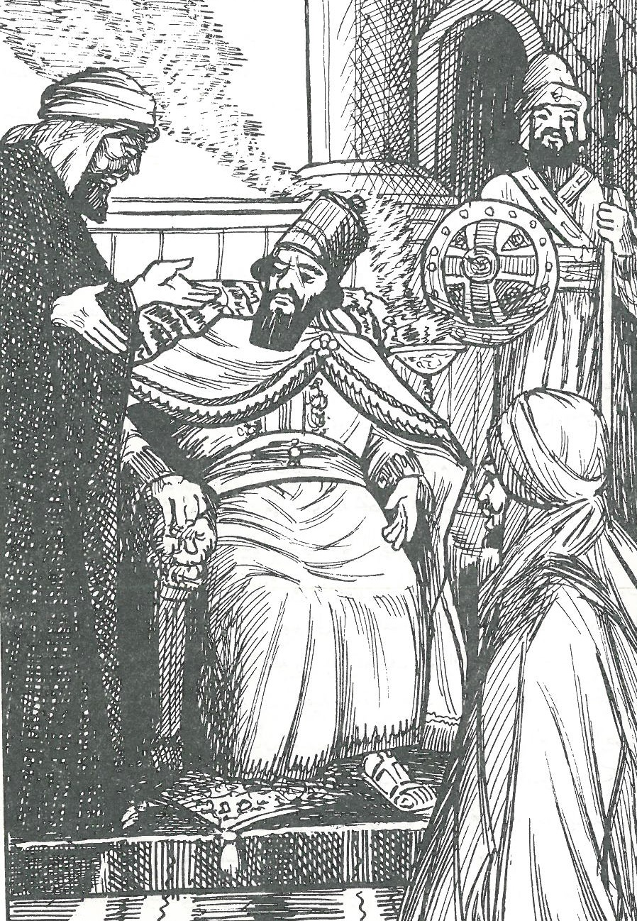 Himyarite king of Yemen, Sayf ibn Dhi-Yazan, asking for militarry assistance from Khosrow Anushiruwān, shah of Persia, against the Abyssinians who were occupying his Country.